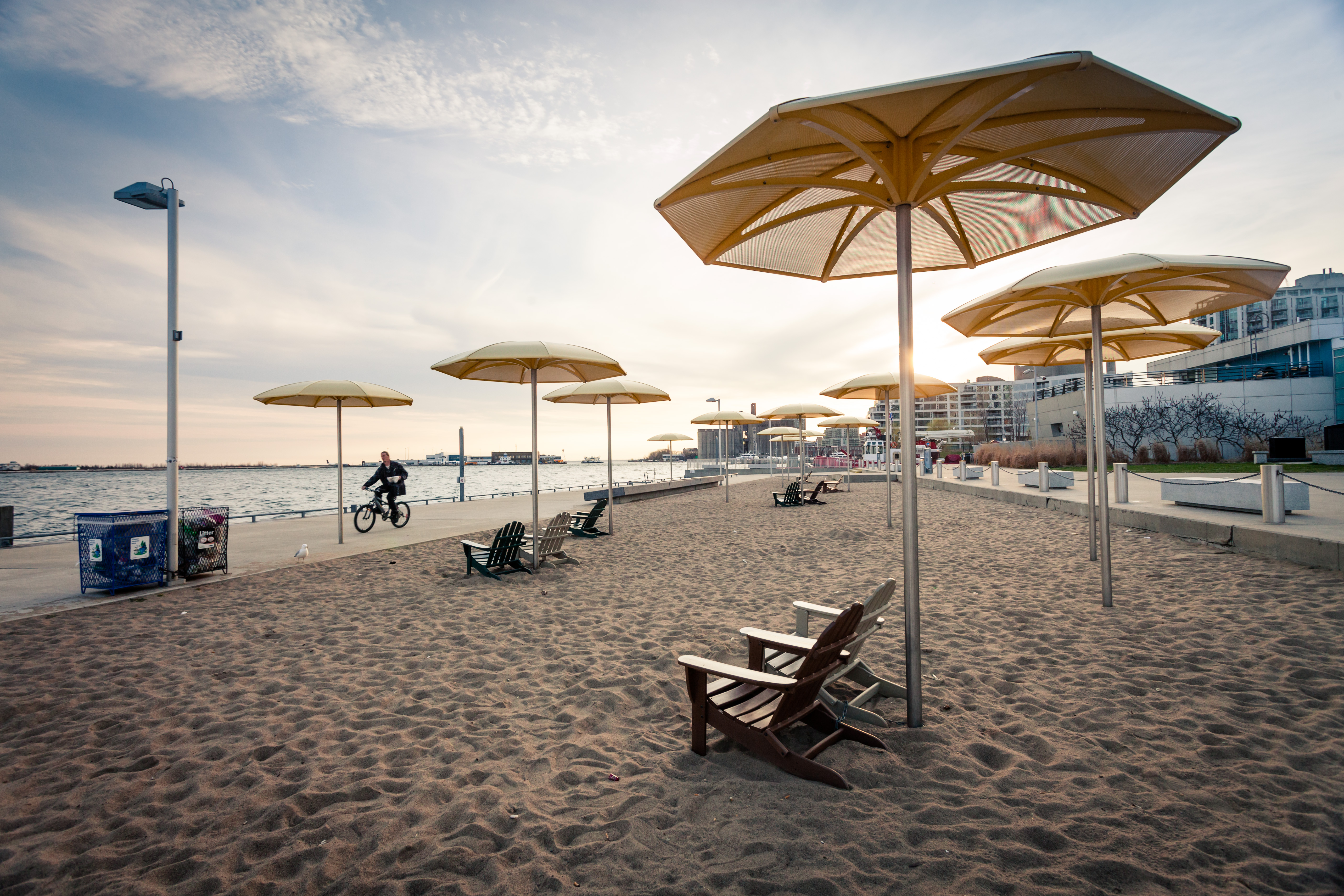 Taken at Toronto's HTO Park during one of those ridiculously warm March days.... Now that its cold again, I wish the warmth would come back... please? No? BOOOO! Toronto, Ontario